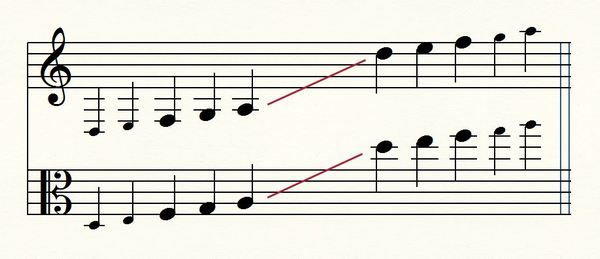 The vocal range of the lowest female voice